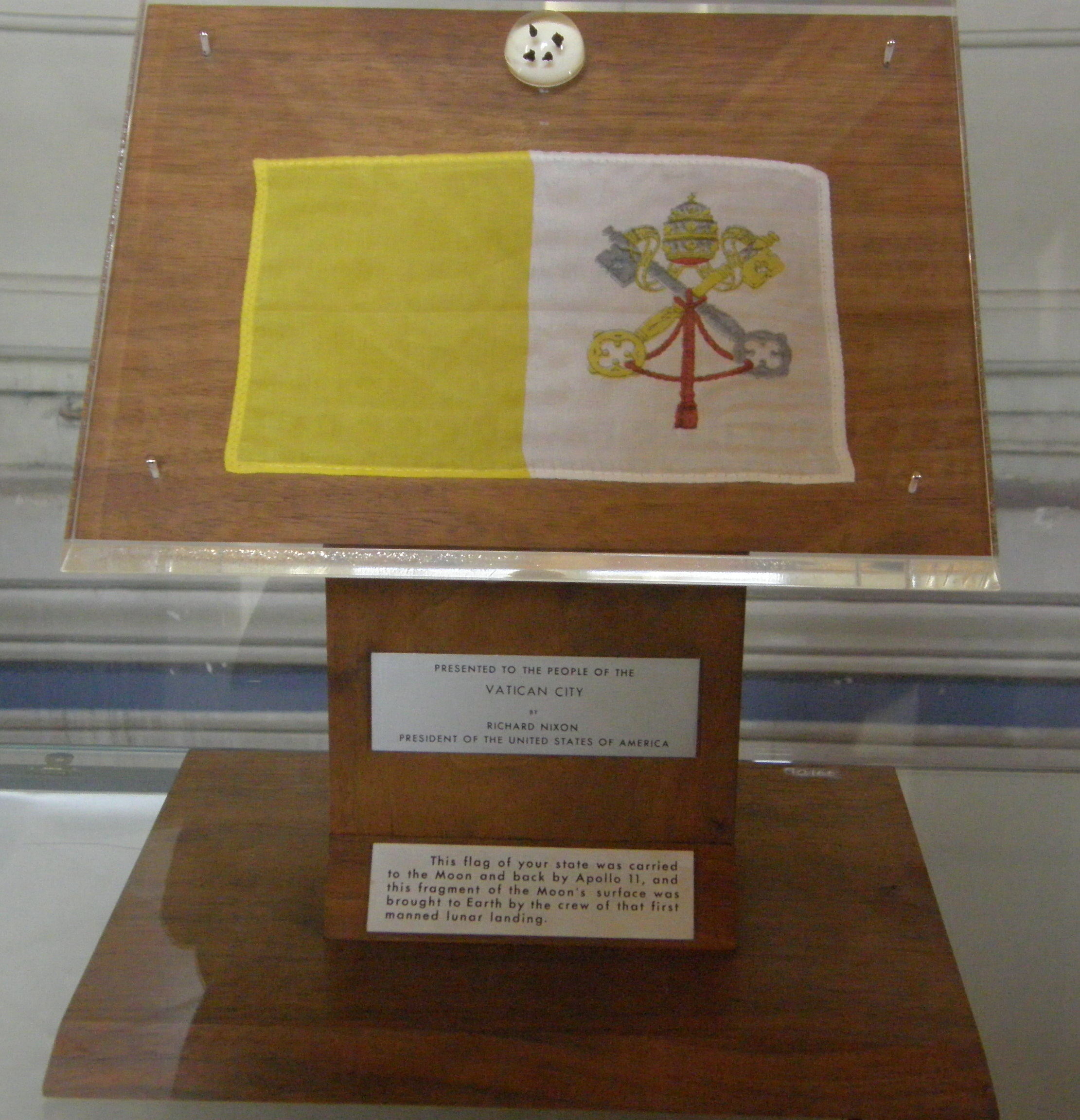 The flag of Vatican City that was taken to the Moon and back by Apollo 11, displayed with some lunar rock fragments, in the Vatican Museum